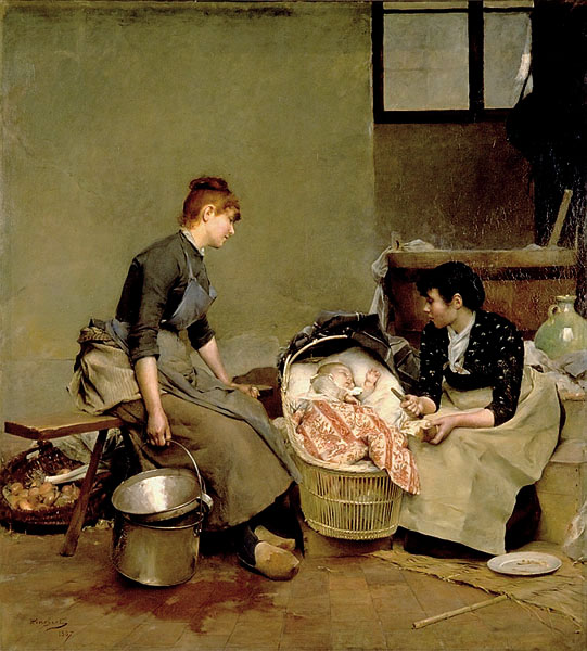 Auguste Émile Pinchart - Berceau Fécamp copie